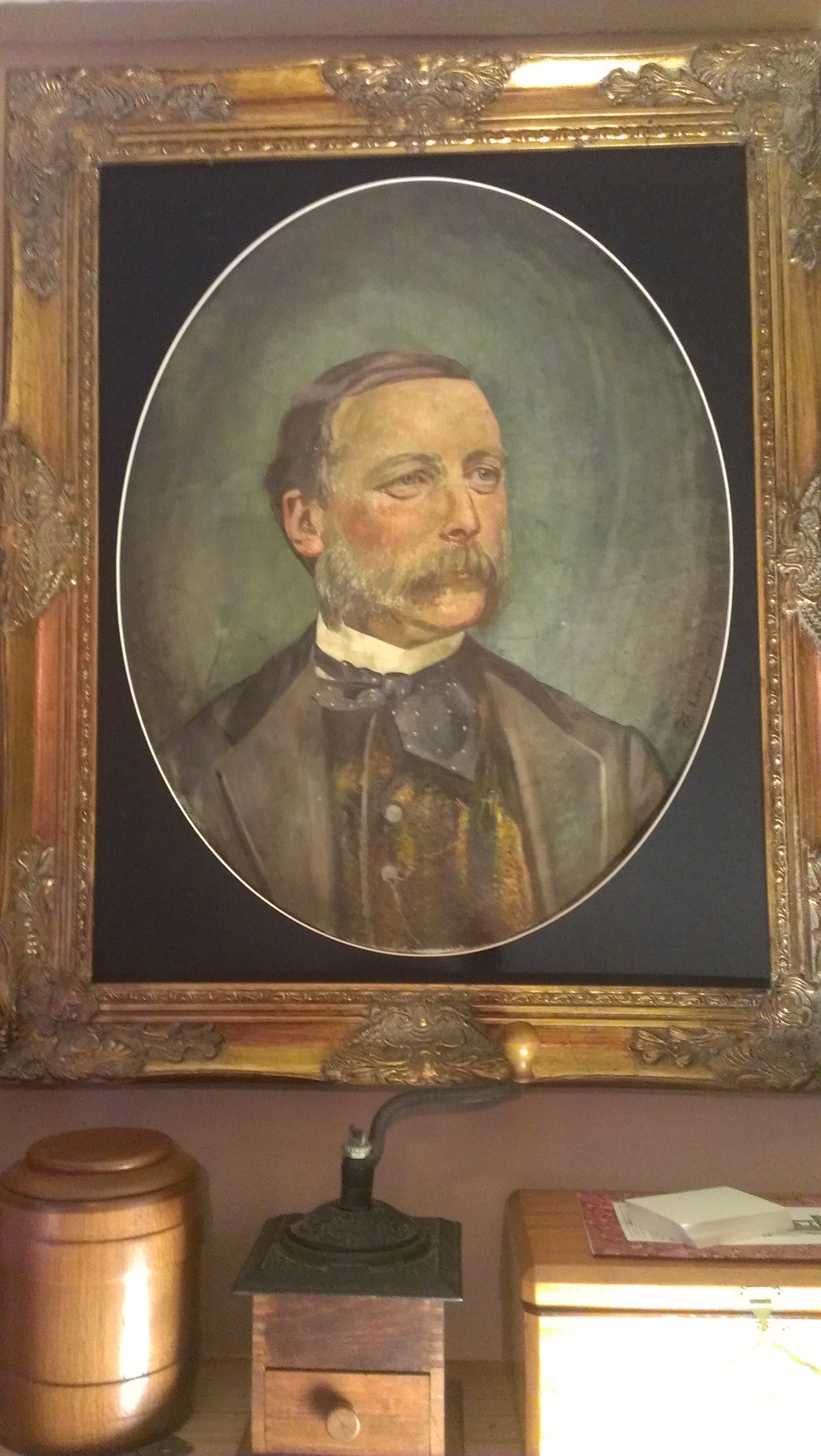 Portrait of man 1919, oil by Federik Lange. from my private collection